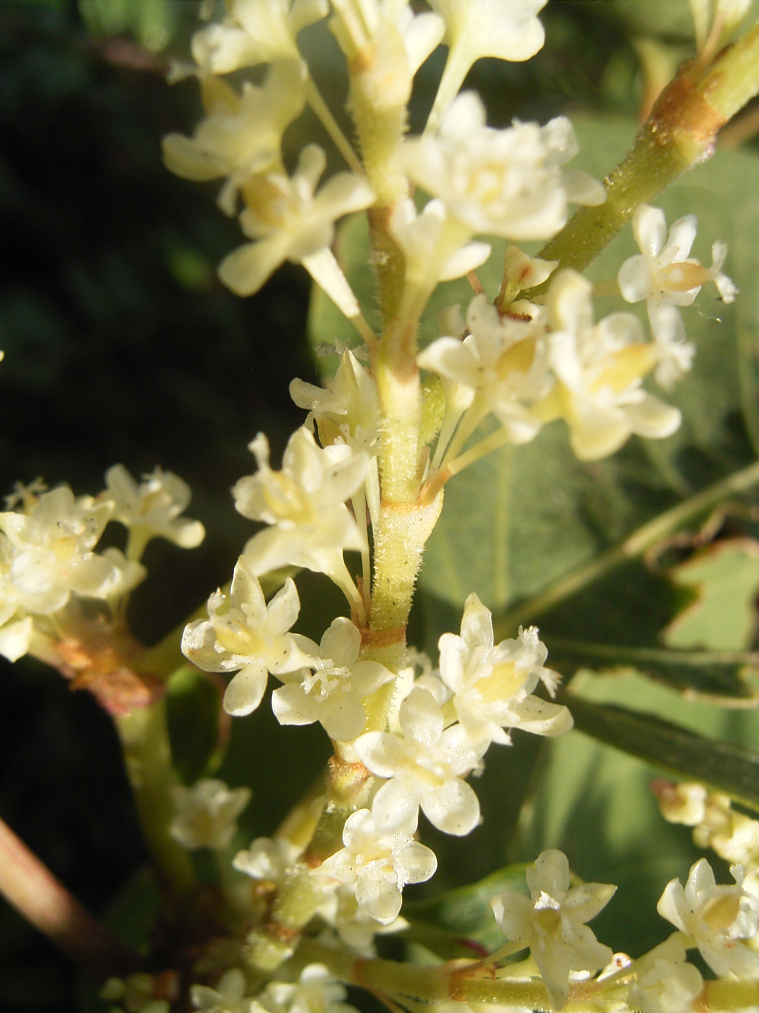 This photo shows Fallopia japonica